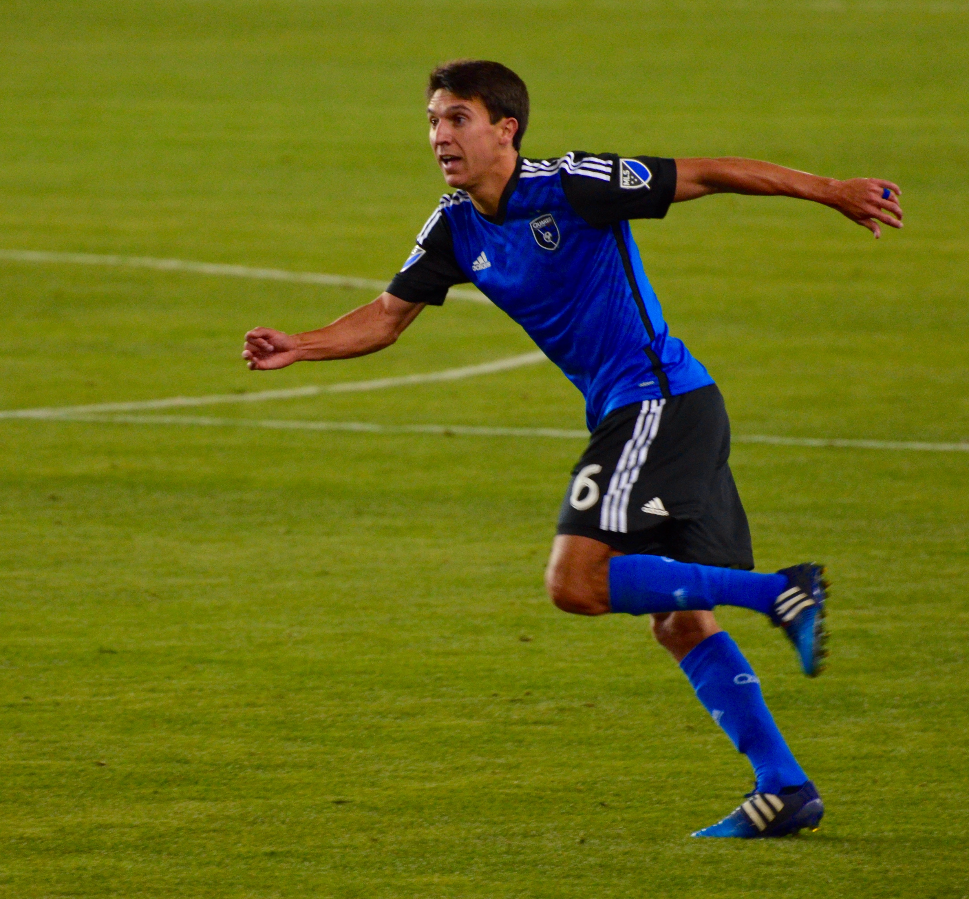 Shea Salinas as Avaya stadium on 11 April 2015